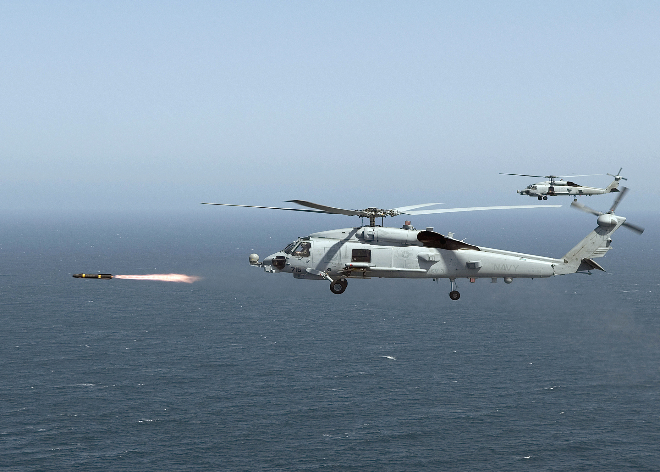 An MH-60R Seahawk assigned to the "Raptors" of Helicopter Maritime Strike Squadron (HSM) 71 fires the first of four live Hellfire missiles fired by aircraft assigned to a deployable squadron. The first MH-60R squadron aircraft is replacing the SH-60B and SH-60F aircraft to combine the capabilities of the two aircraft and has the capability to deploy the AGM-114 series Hellfire missile laser-guided precision air-to-surface missile.